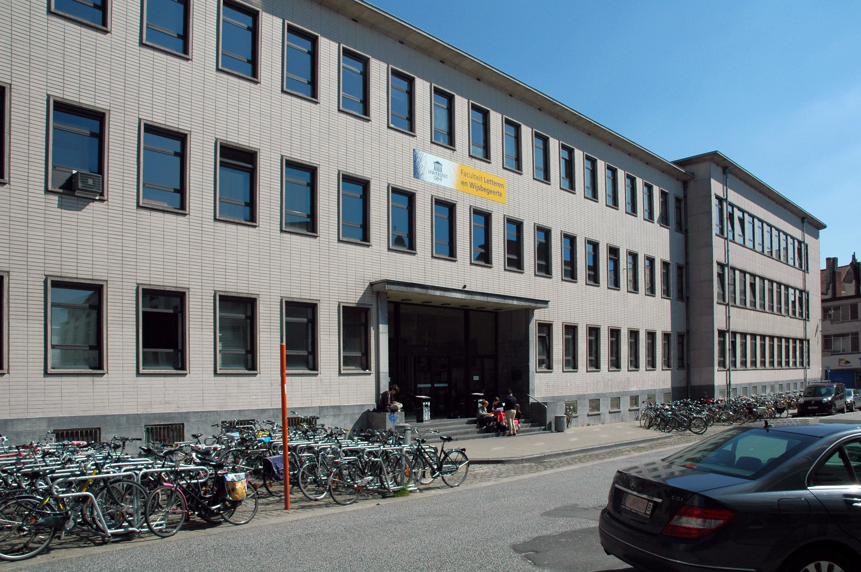 Main entrance (nicknamed TraBla) of the Blandijn building, a building complex of the Ghent University in Ghent, Belgium.